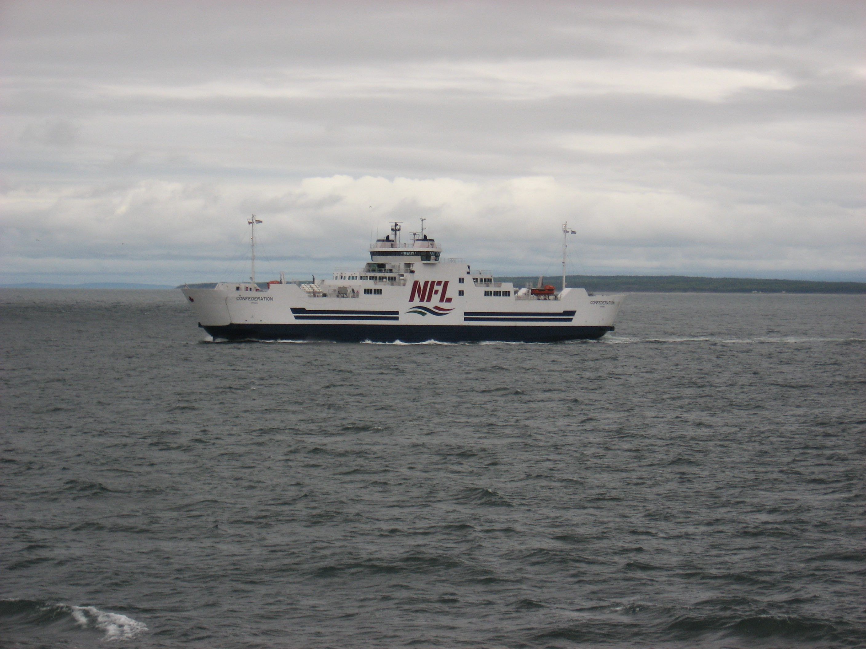 MV Confederation on her way to Wood Islands, PE from Caribou NS Canada. Photo taken on the Northumberland Strait from MV Holiday Island